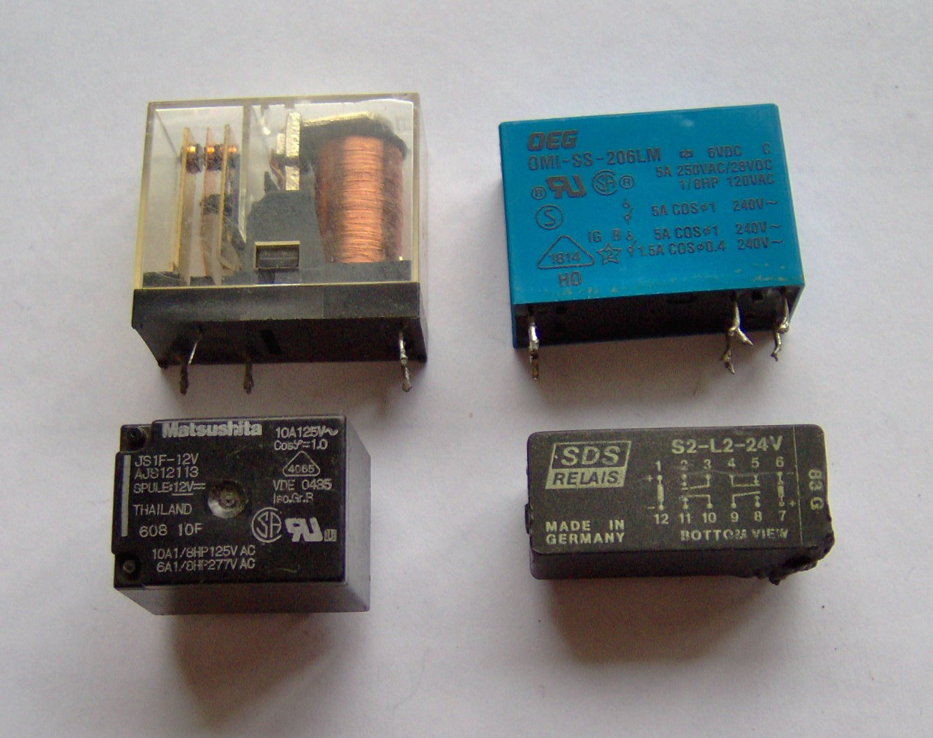 Electronic component - relays